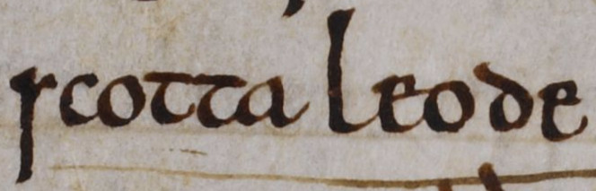 An excerpt from folio 141r of British Library Cotton MS Tiberius B I (the "C" version of the Anglo-Saxon Chronicle. A transcription of this excerpt appears on page 77 of: O'Keeffe, KO, ed. (2001). The Anglo-Saxon Chronicle: A Collaborative Edition. Vol. 5, MS C. Cambridge: D.S. Brewer. ISBN 0 85991 491 7. The transcription reads: "Scotta leode".